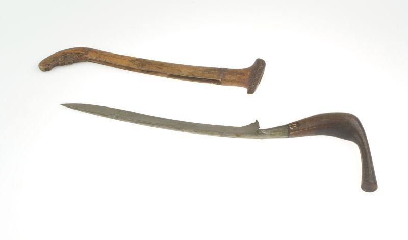 Rencong dagger from Aceh with horn hilt and wooden scabbard